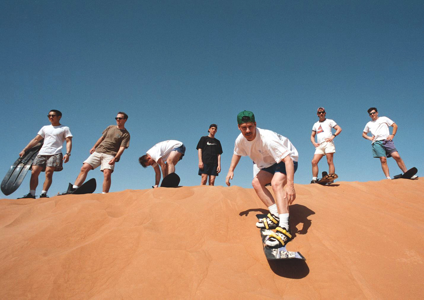 A sailor from the aircraft carrier USS George Washington (CVN 73) hits the slope during a sand skiing tour in the desert dunes outside of Jebel Ali, United Arab Emirates on April 9, 1996, as other sailors line the top of the sand dune for their turn. The George Washington is paying a port visit to Jebel Ali while deployed to the Arabian Gulf in support of Operation Southern Watch. Southern Watch is the U.S. and coalition enforcement of the no-fly-zone over Southern Iraq.